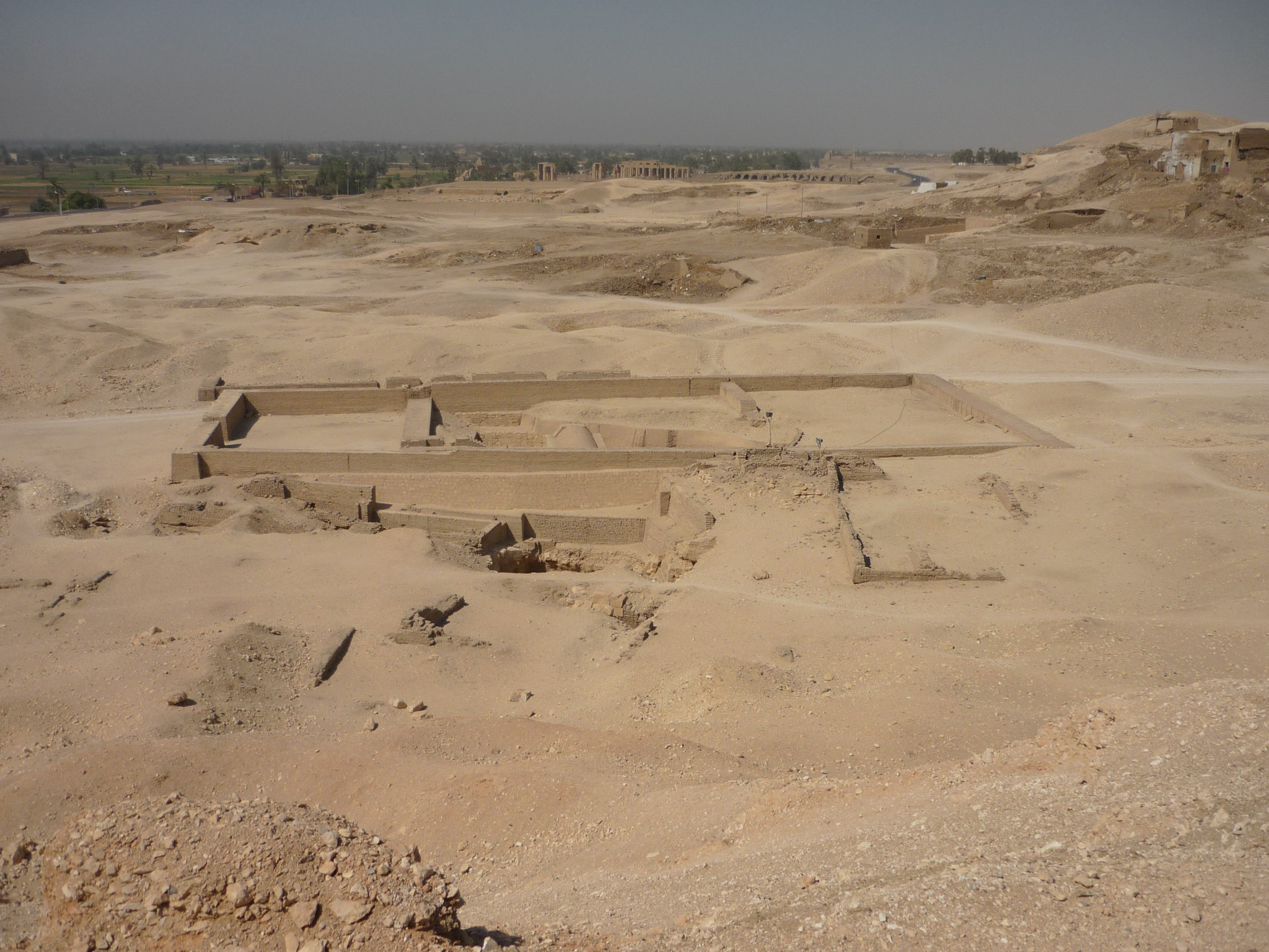 El-Asassif necropolis, Theban Necropolis, Egypt